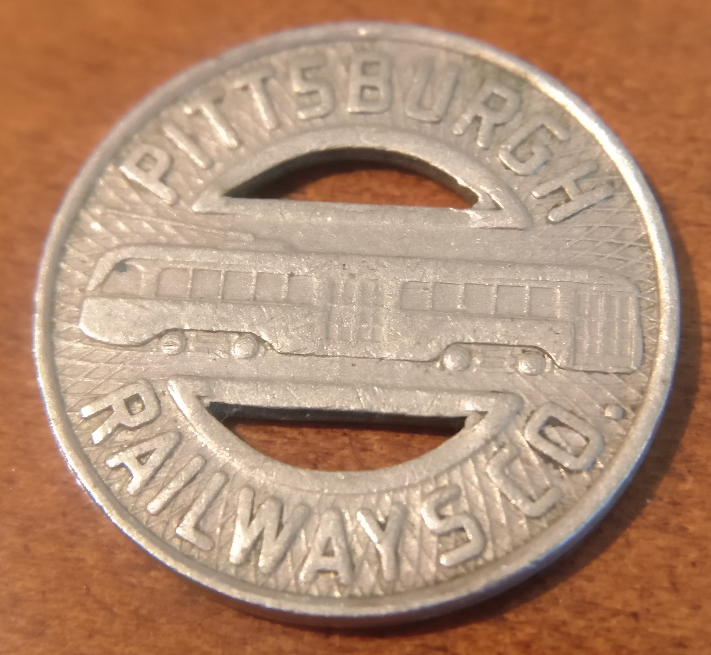 1930s Era Pittsburgh Railways Token Fare - Front Side